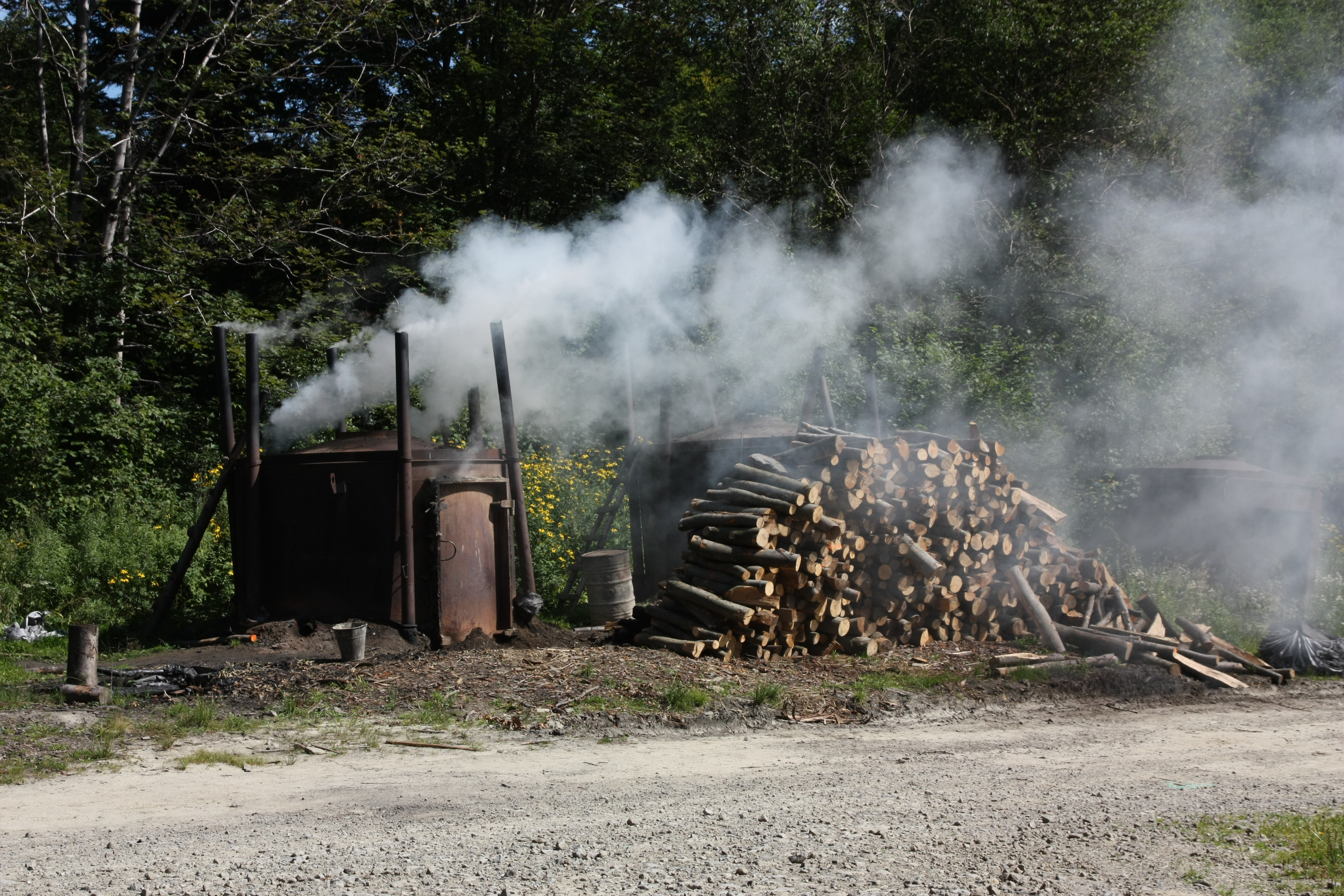 Path in Otryt.